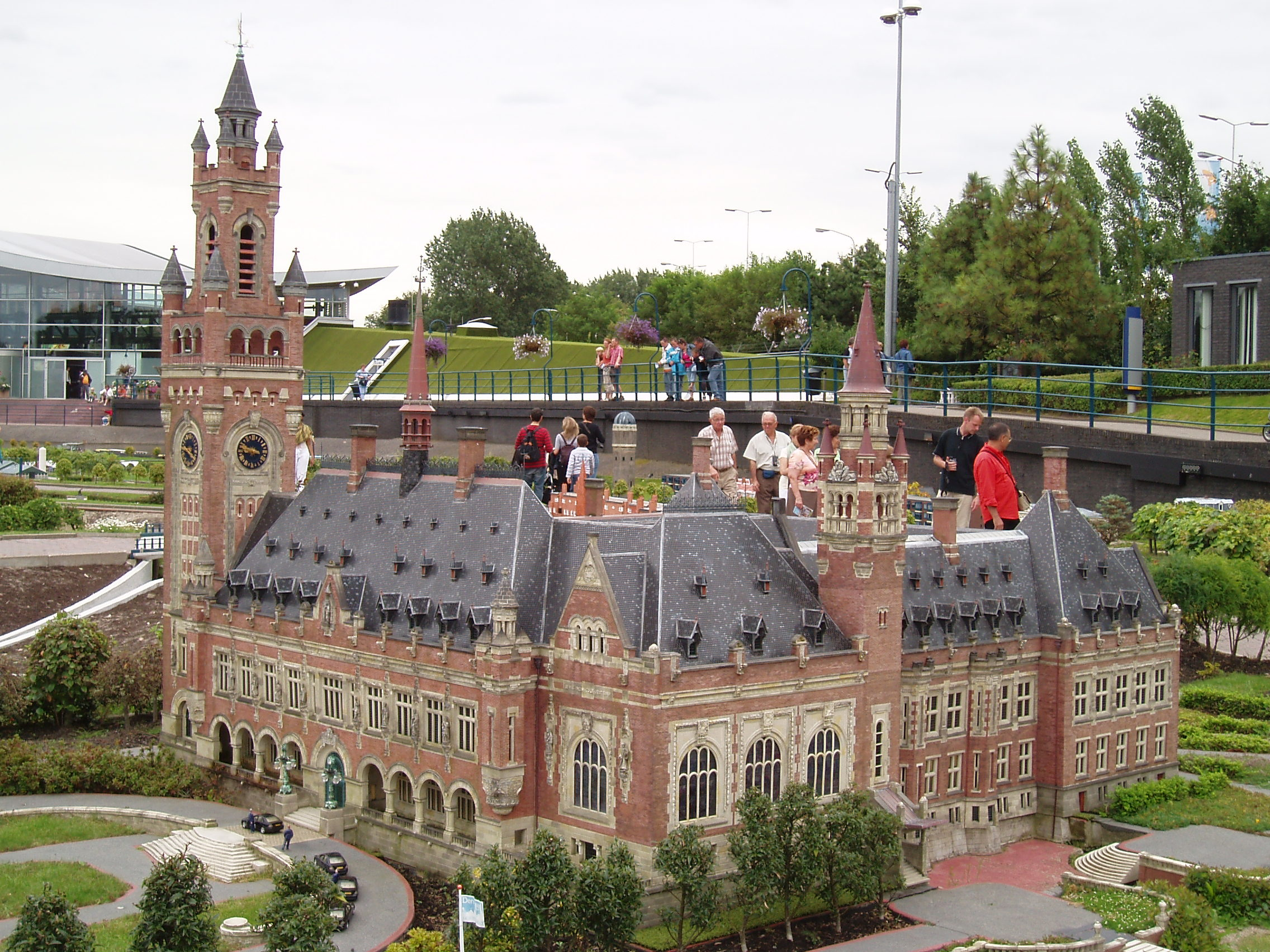 Madurodam in the Hague in the Netherlands